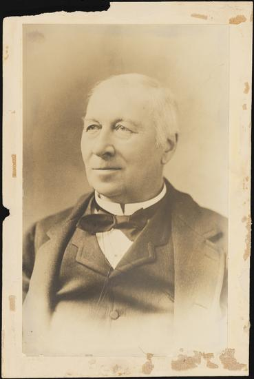 Percy Rivington Pyne I (1820–1895) circa 1875-1890